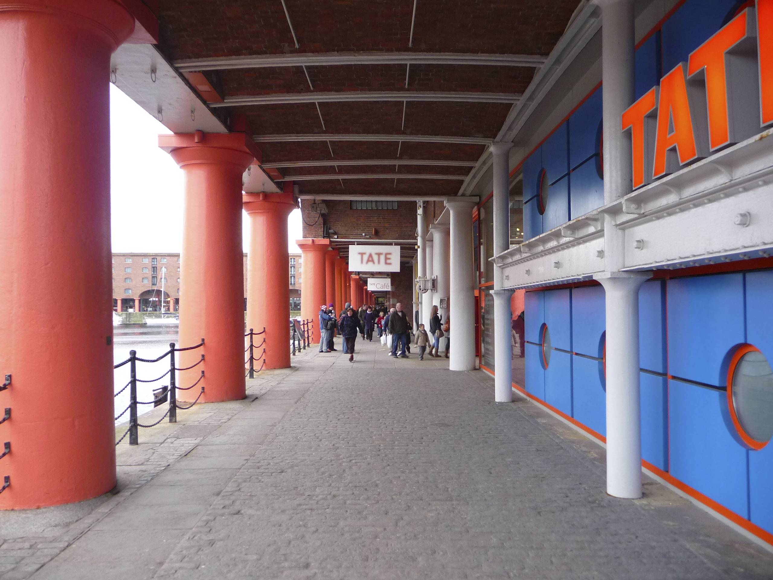 Tate Liverpool